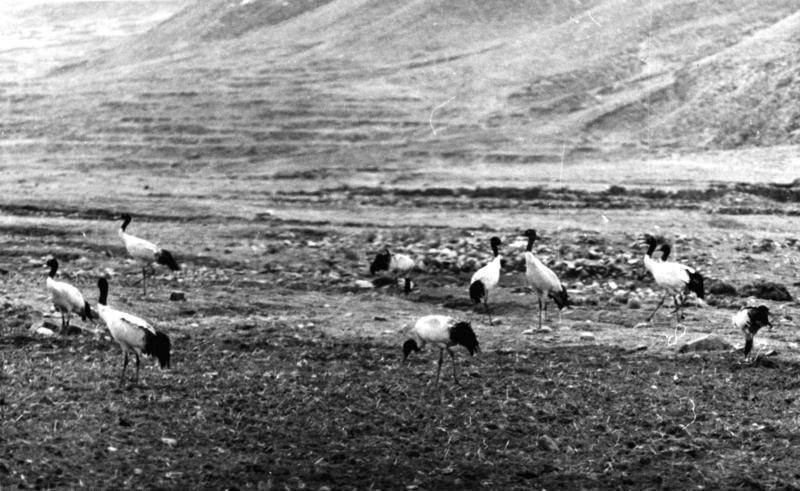 Title: Tibetexpedition, Schwarzhalskraniche Factual corrections and alternative descriptions are encouraged separately from the original description. Additionally errors can be reported at this page to inform the Bundesarchiv. Original historic description: Brahmaputratal, Schwarzhalskraniche